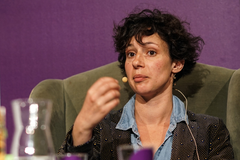 Alice Zeniter at Litteraturexchange Festival in Aarhus (Denmark 2019)